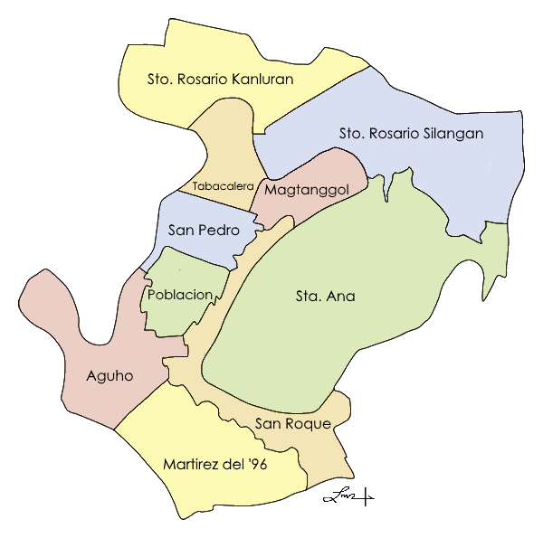 Map showing the barangays of Pateros